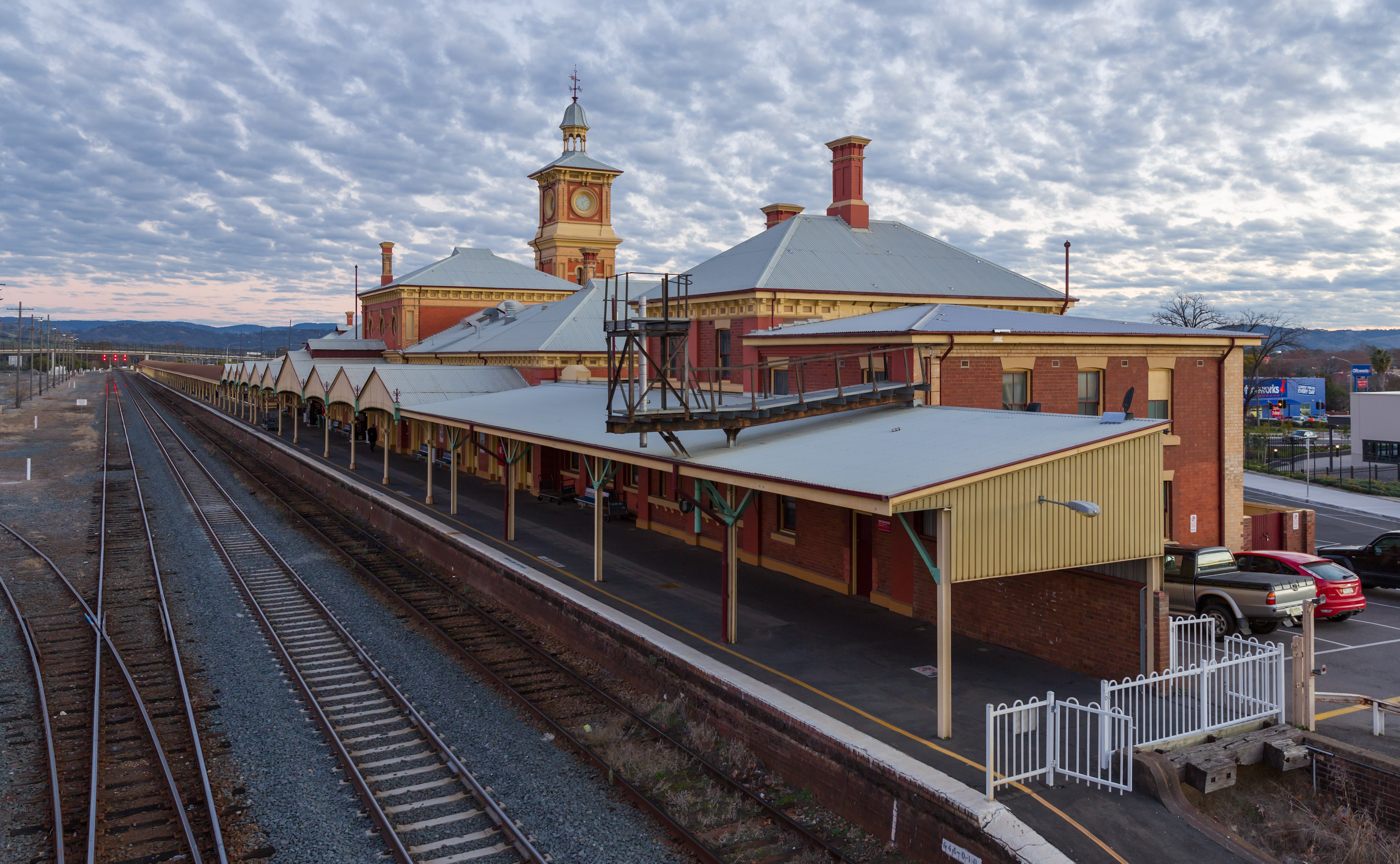 Albury railway station in New South Wales, Australia. Standard gauge tracks are in the foreground; Broad gauge tracks for V/Line services end at the other end of the station building.